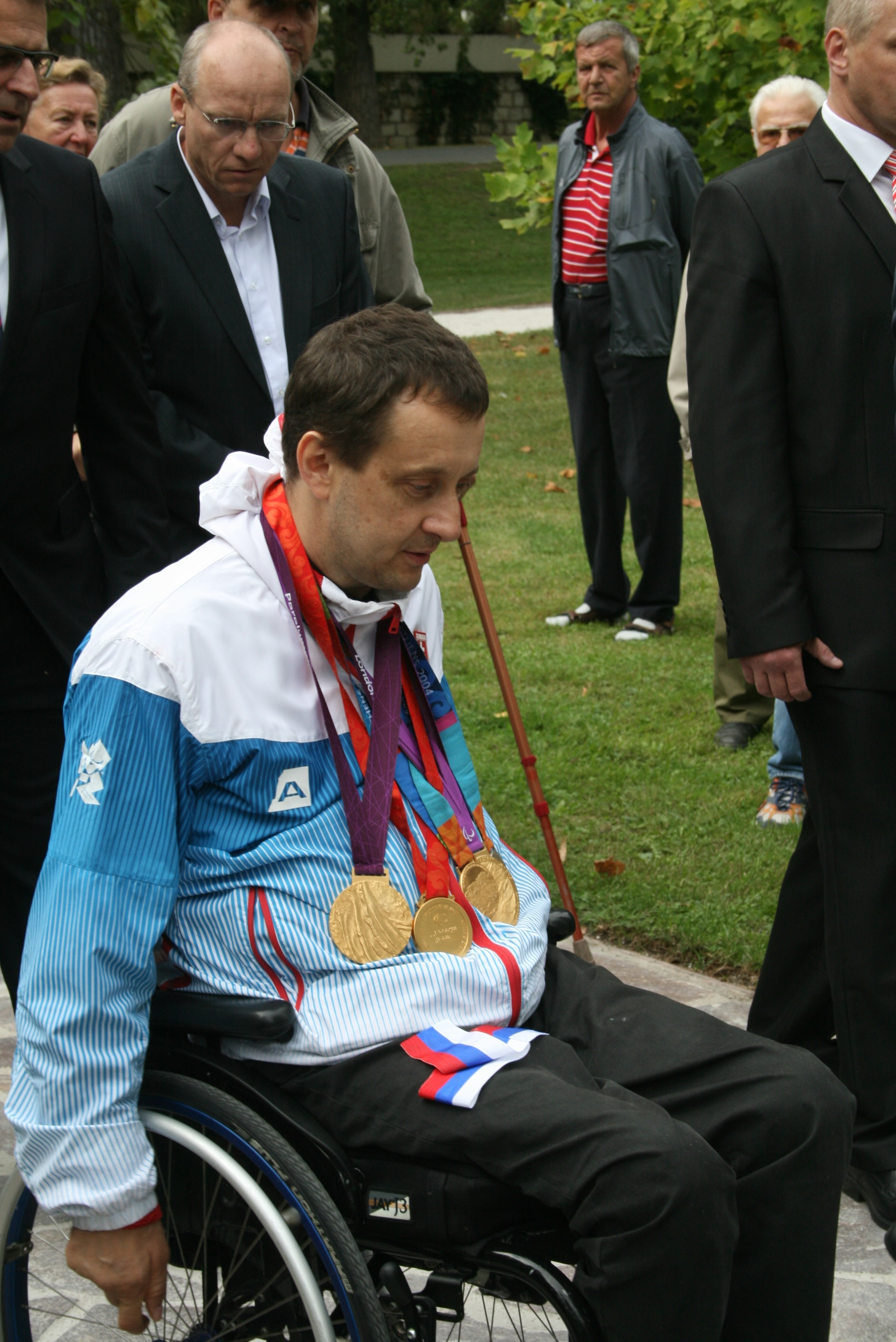 Paraolympionic Ján Riapoš on Opening ceremony of Walk of Fame of Slovak paraolympionics in Piešťany, 14th september 2012.